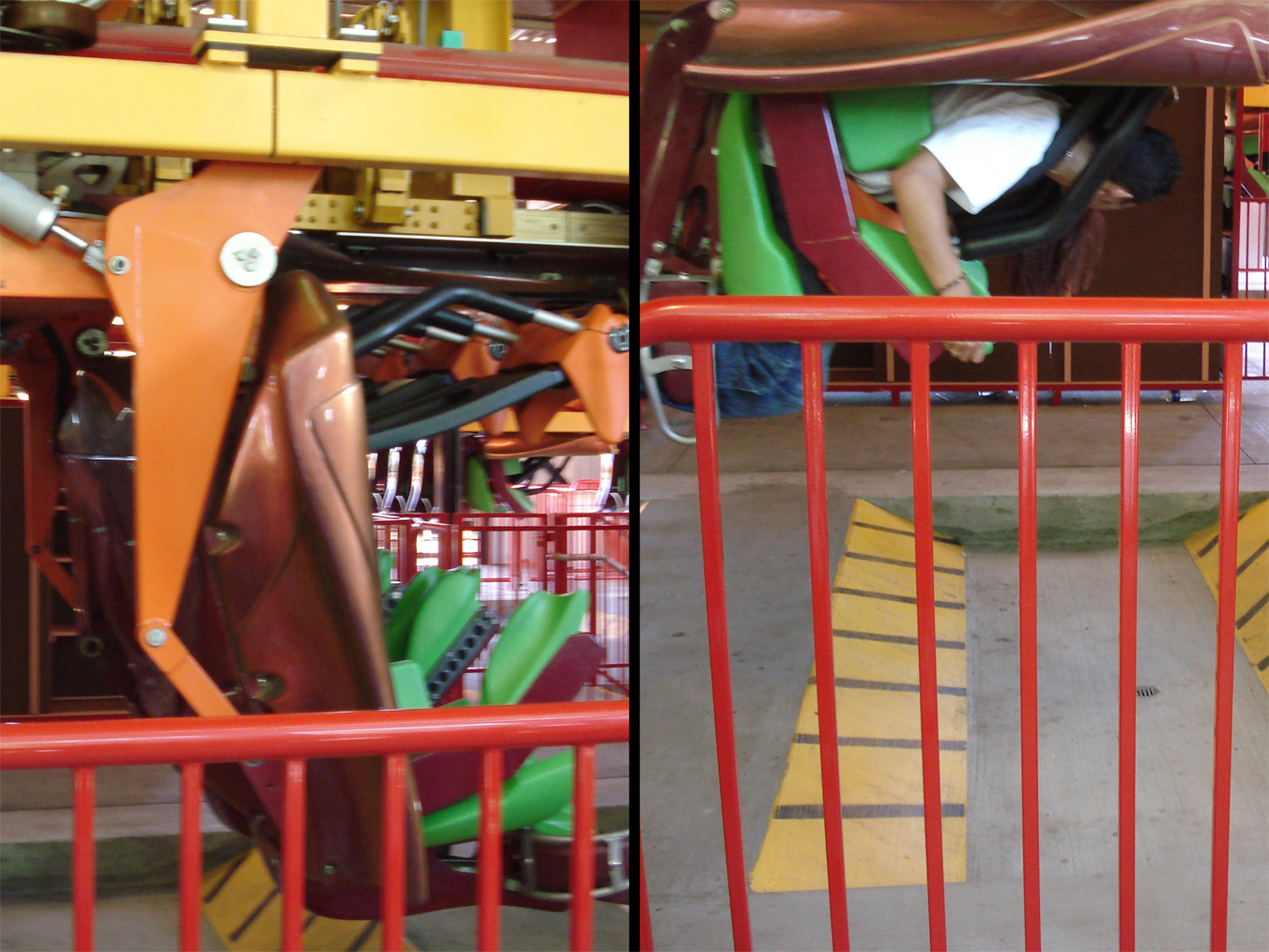 Tatsu at Six Flags Magic Mountain